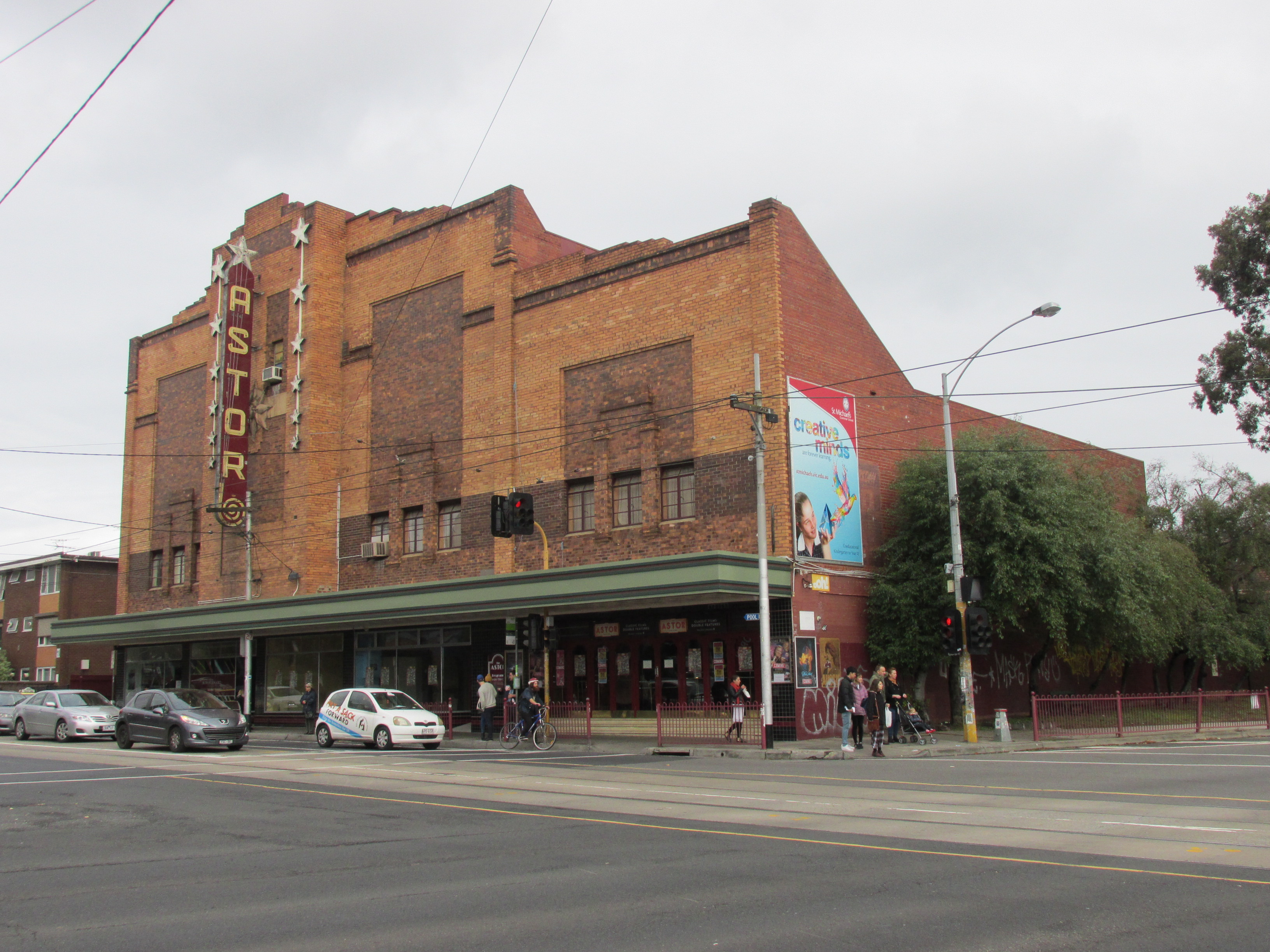 Astor Theatre, Chapel Street, St Kilda, as seen from Dandenong Road.